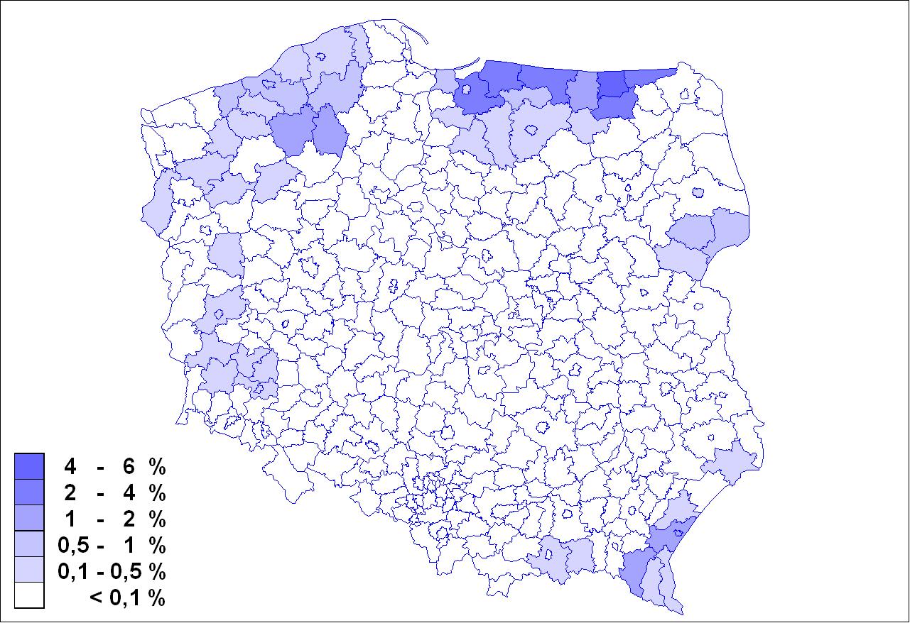 Ukrainians living in Poland, according to 2002 Census